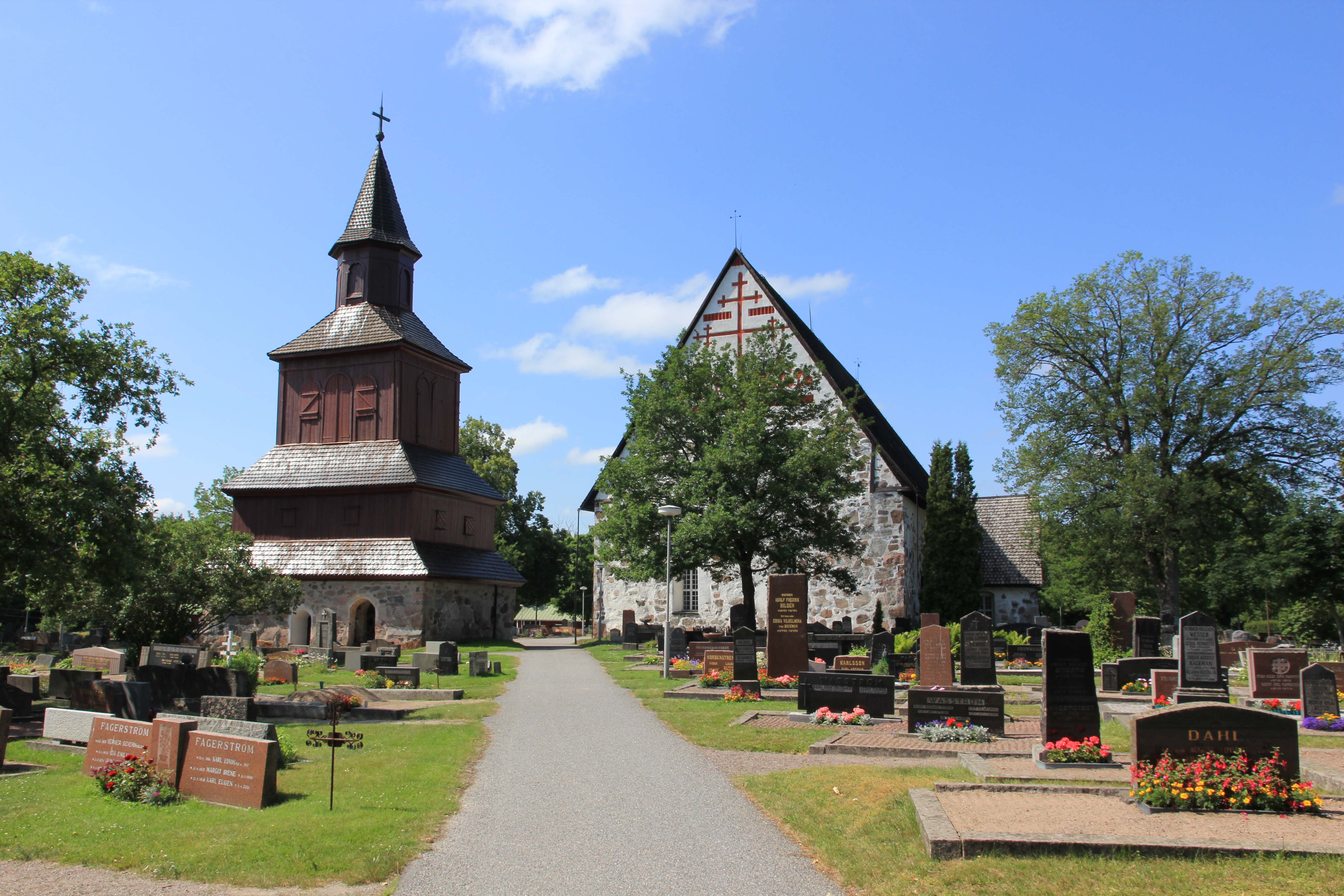 Inkoo church and bell tower.